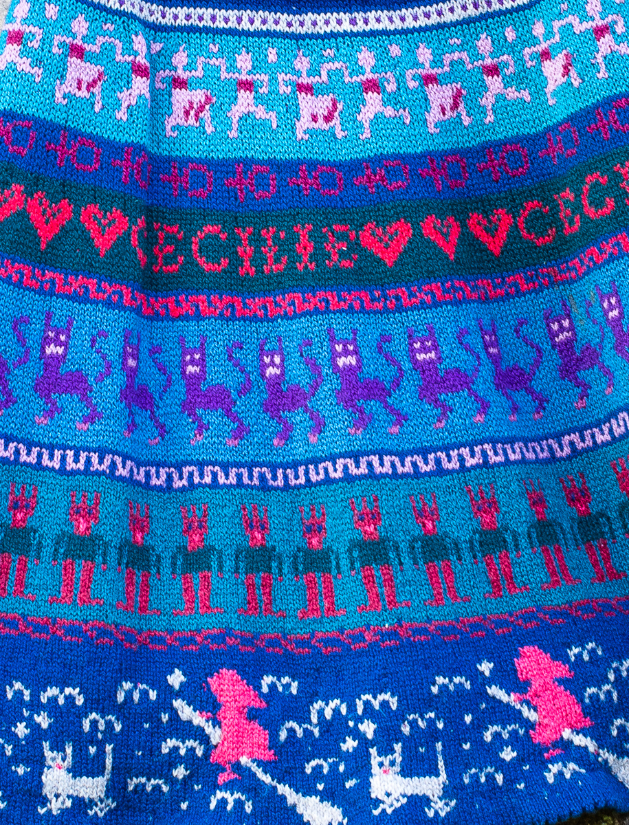 Sample of the knitting style "hønsestrik"